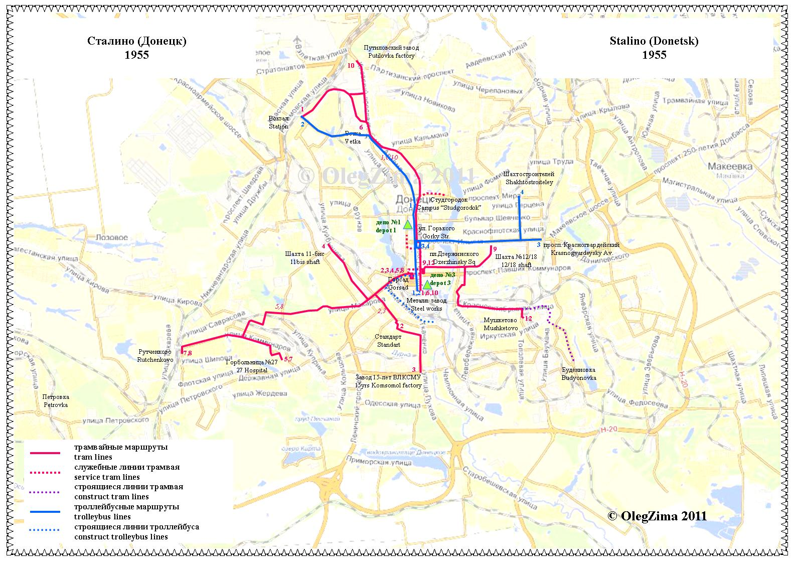 Transport map of Donetsk city at 1955